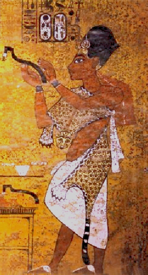 Aja performing the Opening of the Mouth ceremony at Tutankhamun. Wall painting from Tutankhamun's tomb (KV 62).